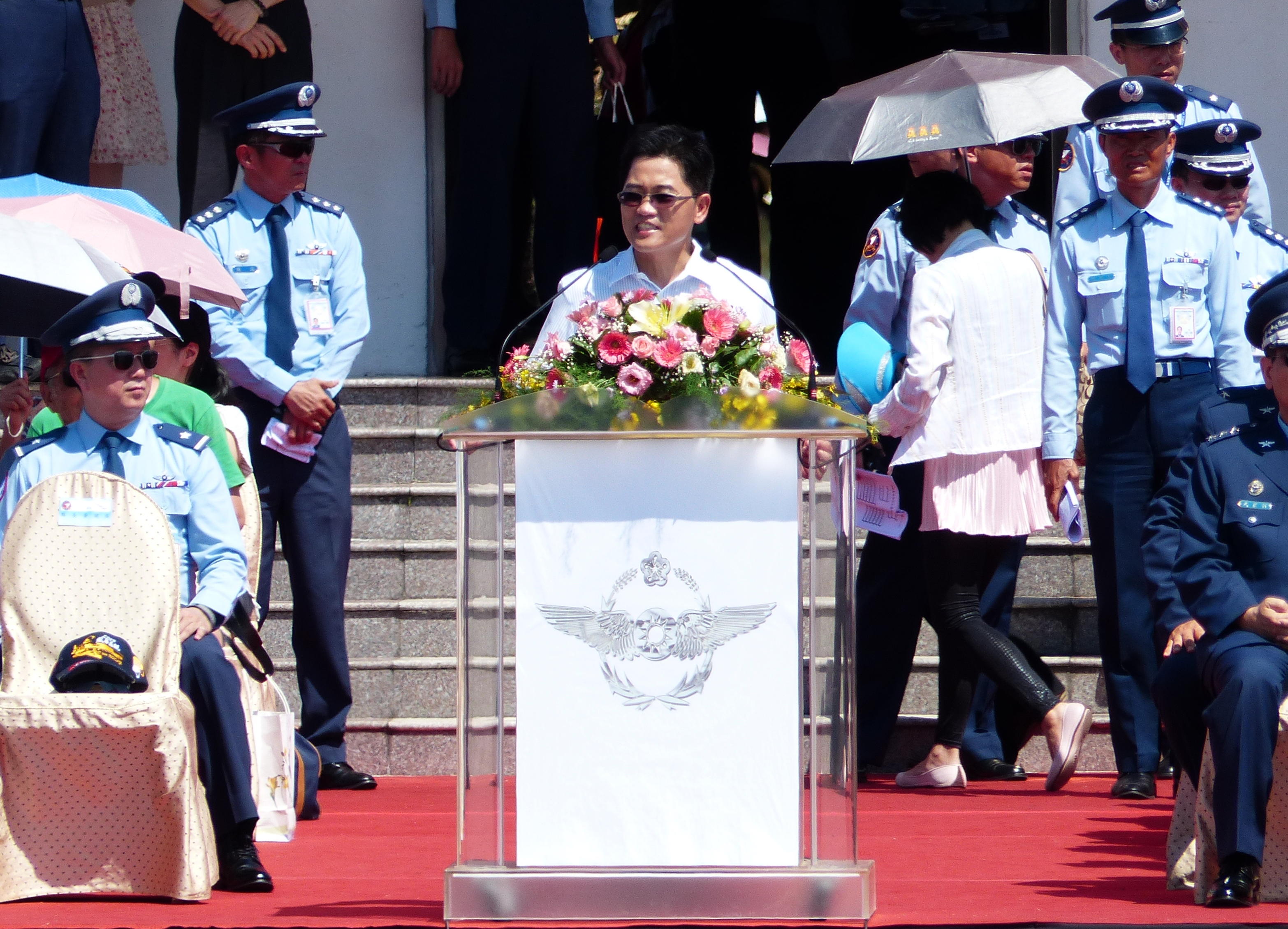 Justin Huang